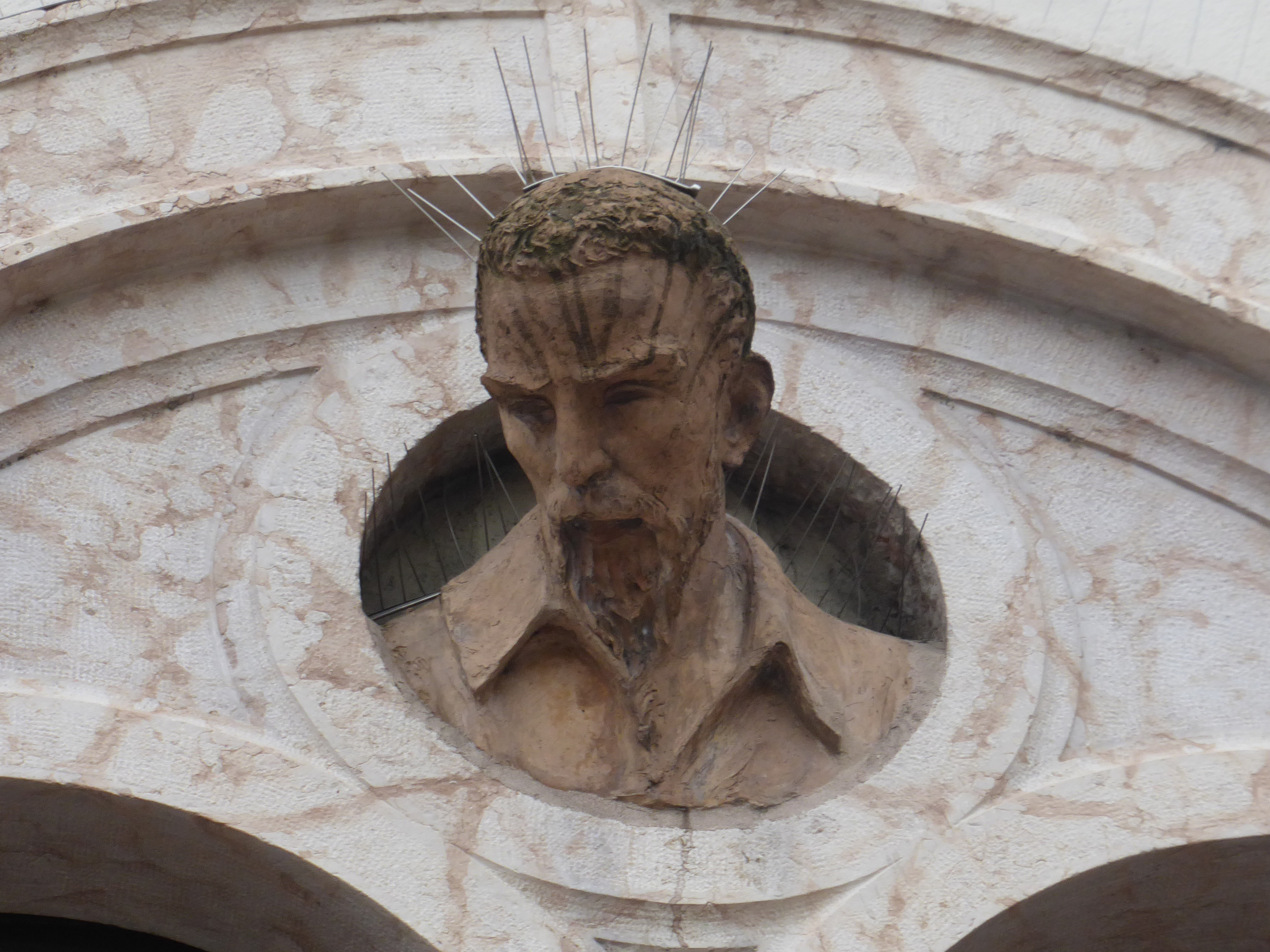 Bust of Bernardo (Bernardino) di Sant'Agnese on the facade of Palazzo Ranzi, in Trento, by Andrea Malfatti